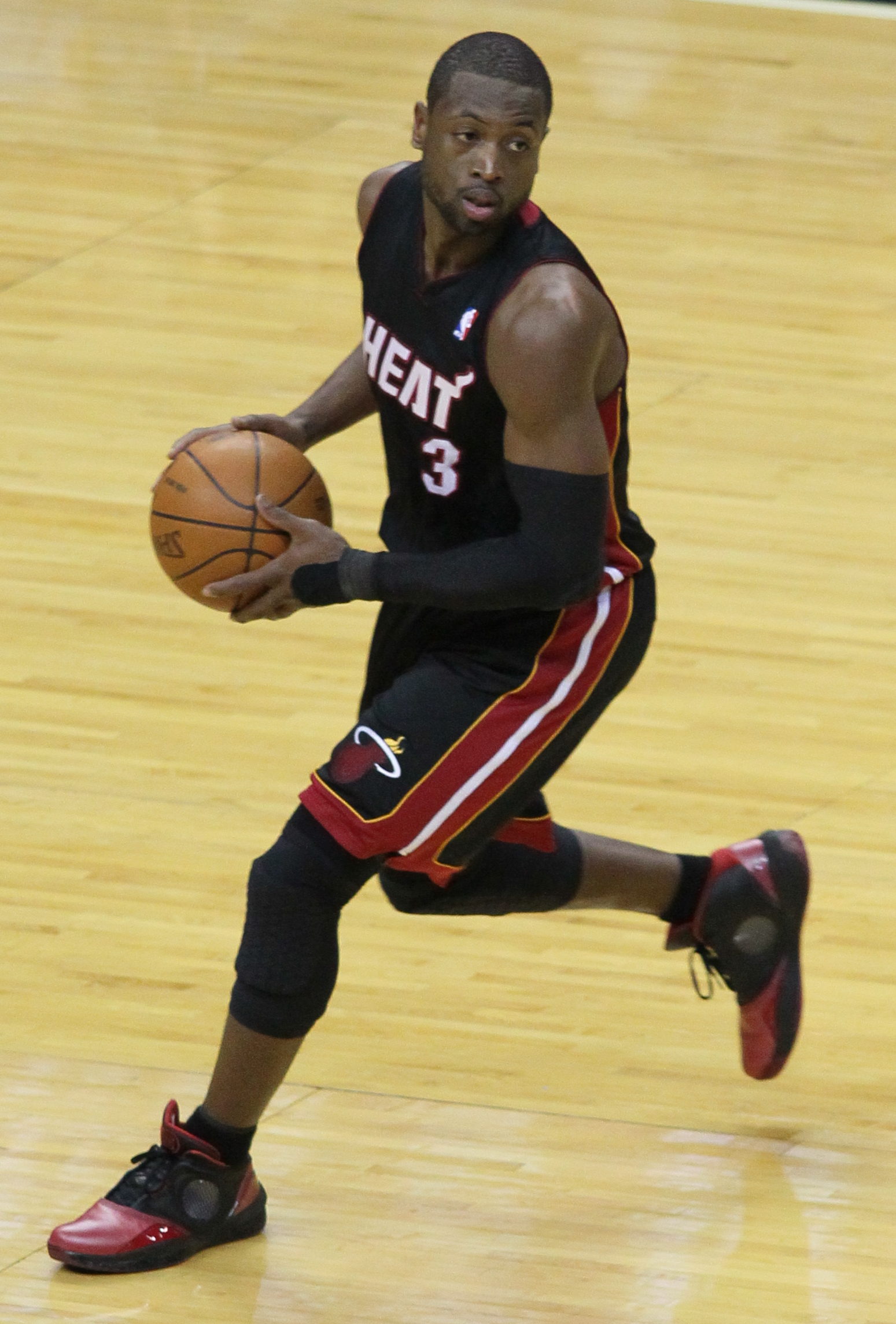 Washington Wizards v/s Miami Heat December 18, 2010